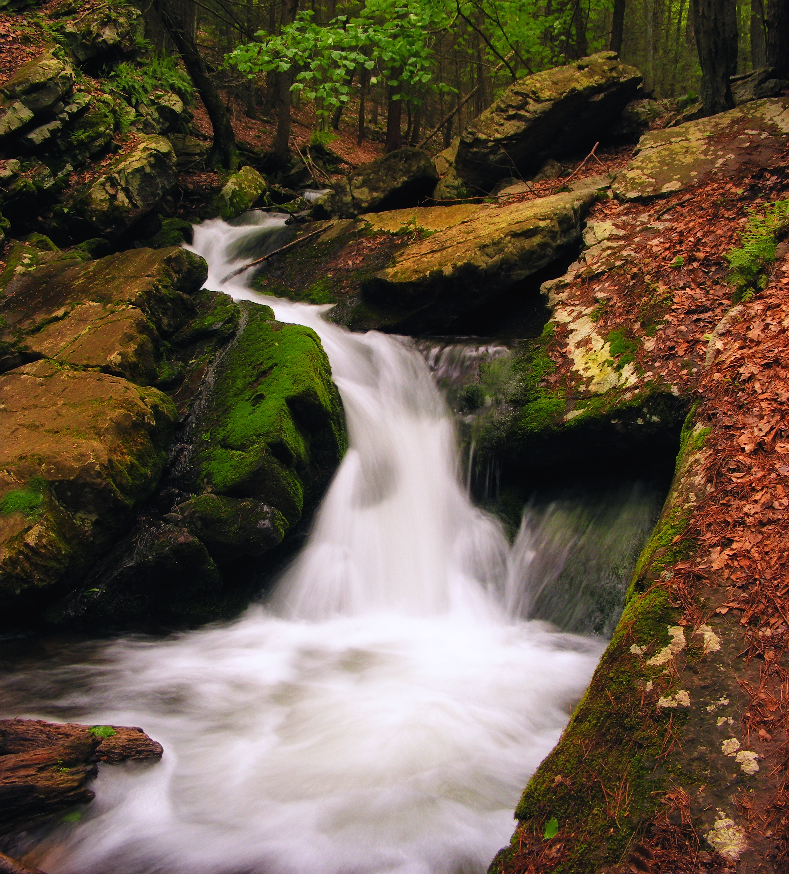 Swift Run in High Rock Picnic Area, Snyder-Middleswarth Natural Area, Snyder County, within Bald Eagle State Forest.